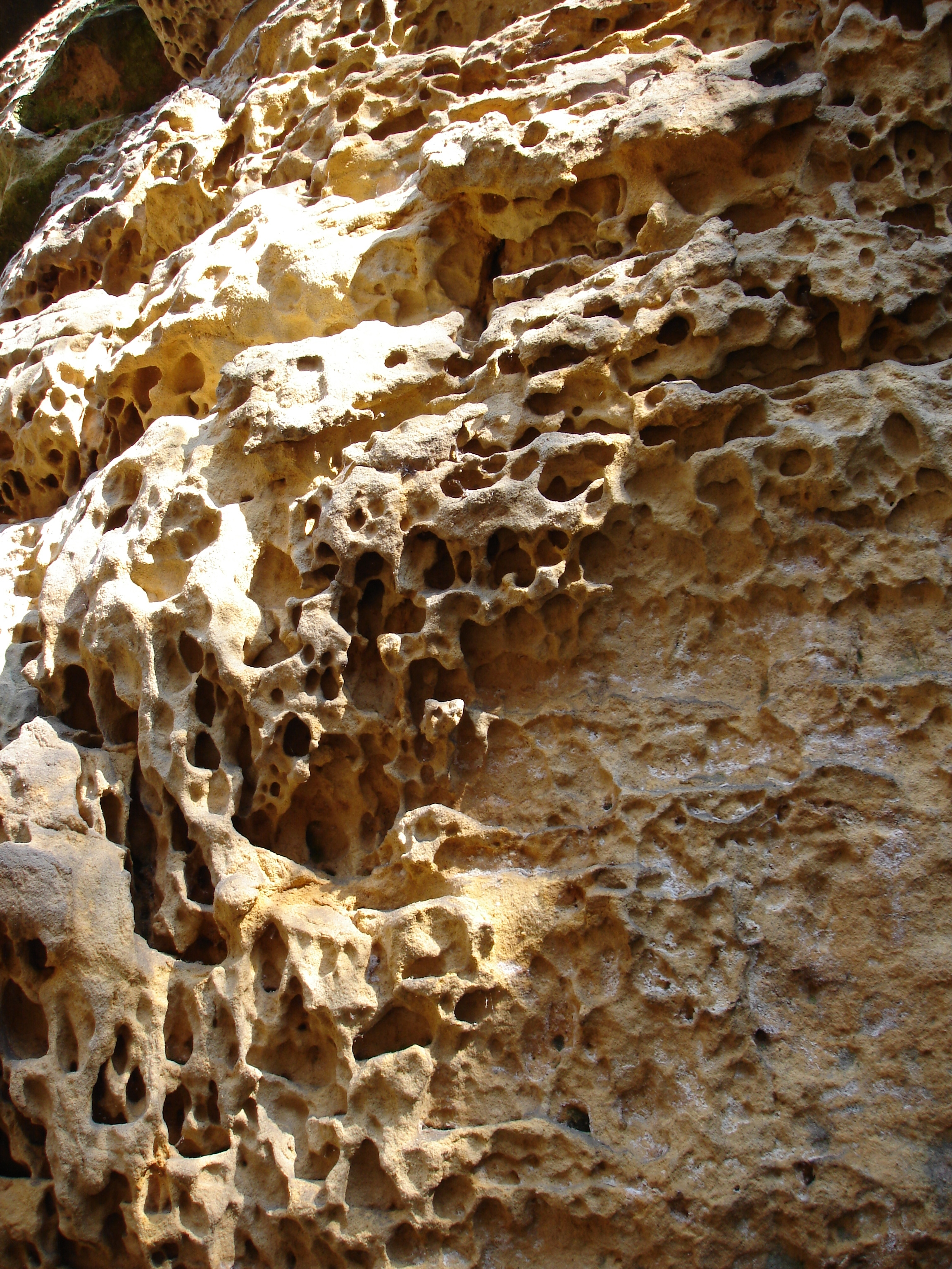 Sandstone in Peklo near Česká Lípa, czech republic